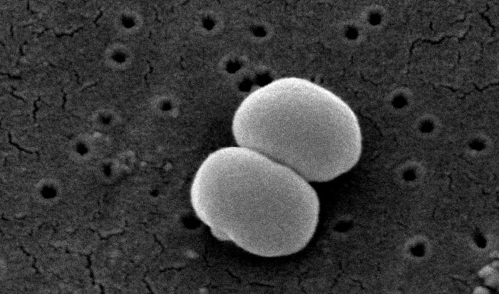 Scanning Electron Micrograph of Staphylococcus epidermidis